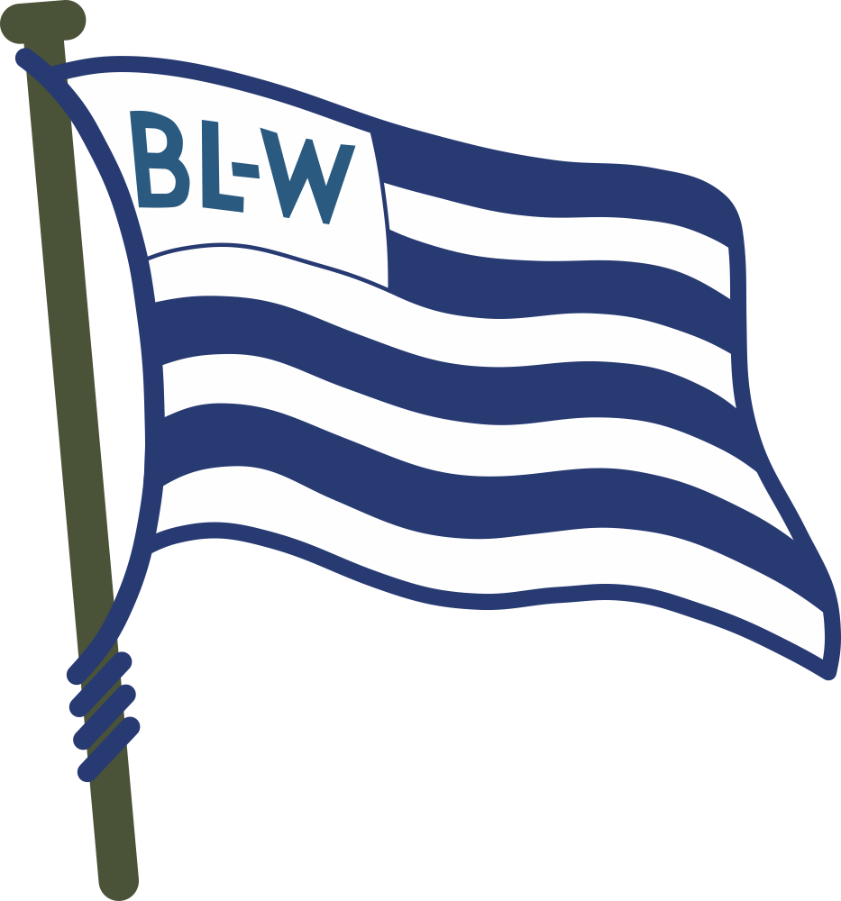 historic logo from Blau-Weiß 90 Berlin (1930s)